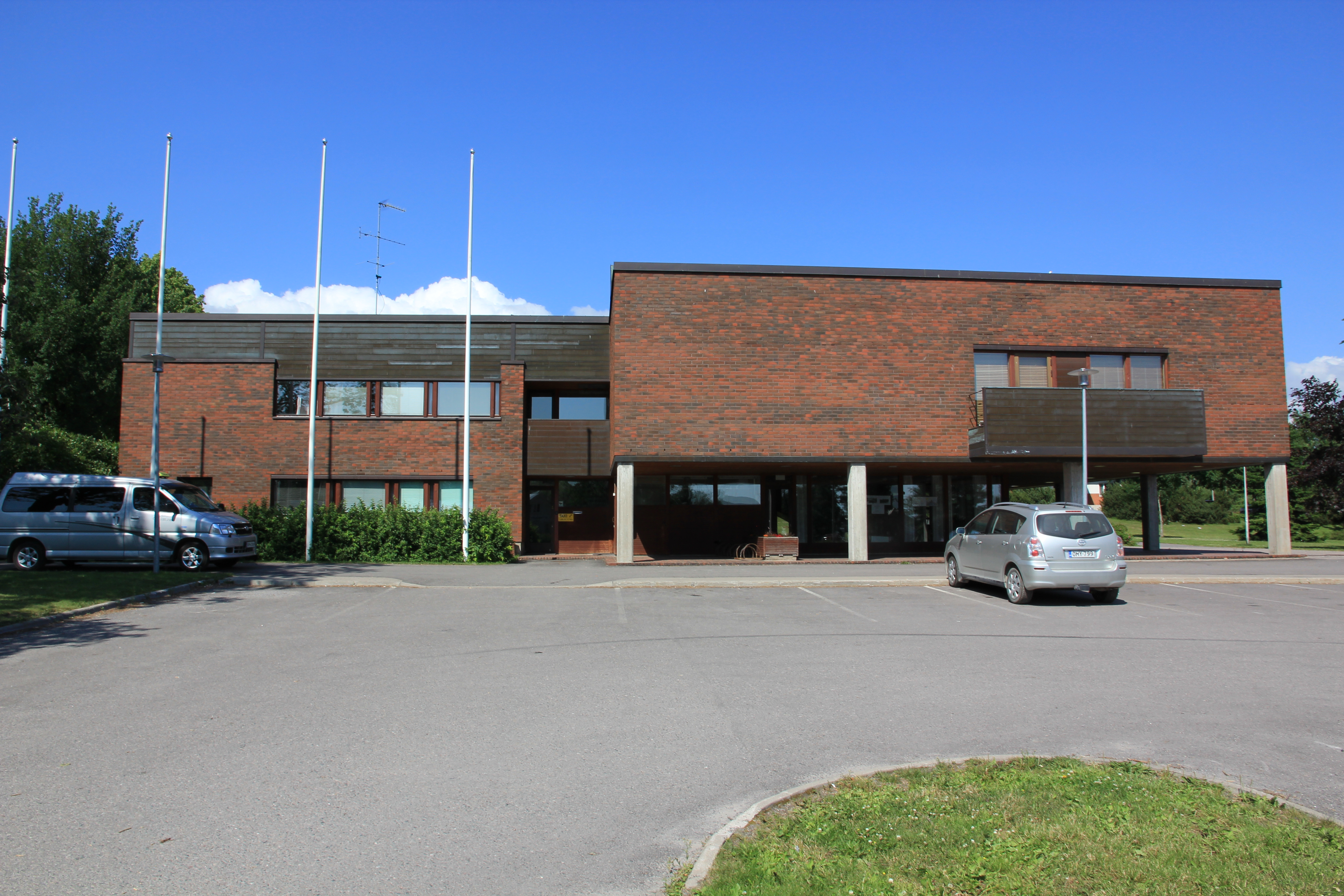 Ingå town hall in Ingå, Finland.